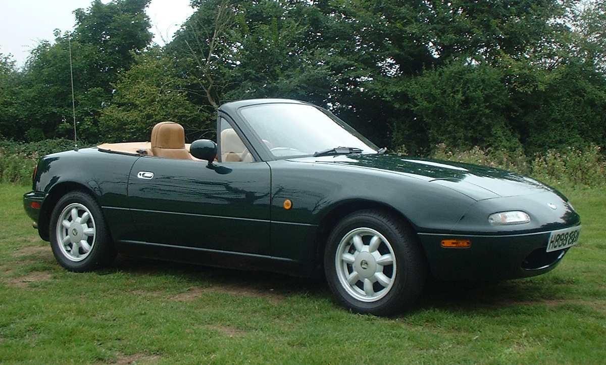 A first-generation Mazda MX-5, sold as "Eunos Roadster" in Japan